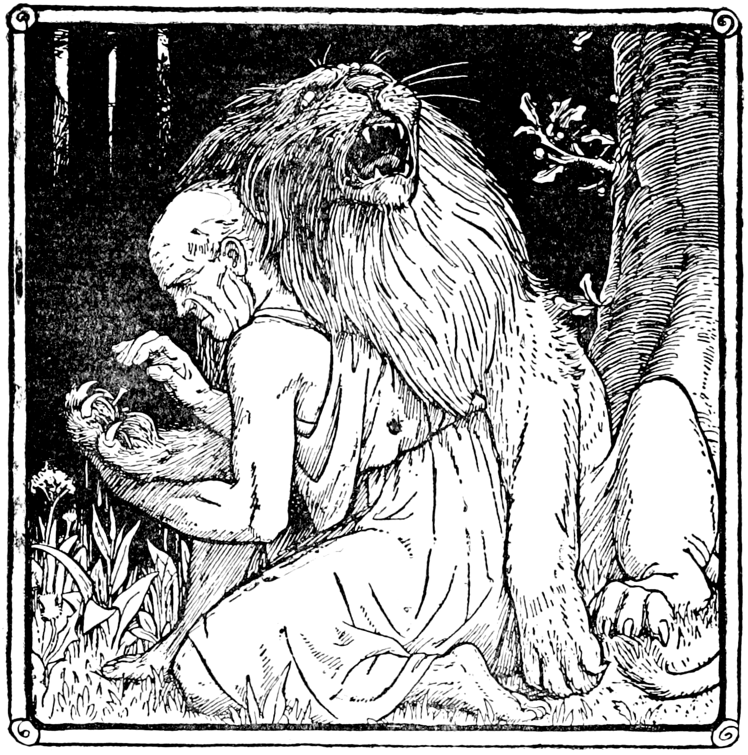 Illustration from a book of fairy tales from Europe, translated into english